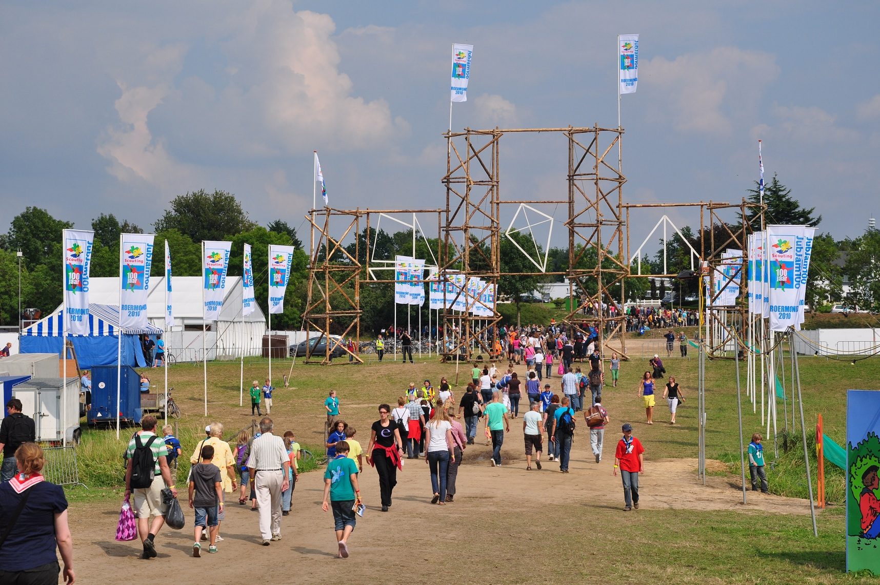 JubJam100 is the "Jubilee Jamboree" organised in Roermond (Netherlands) in 2010 at the occasion of 100 years of Dutch scouting. The picture shows the main entrance the Jamboree grounds.